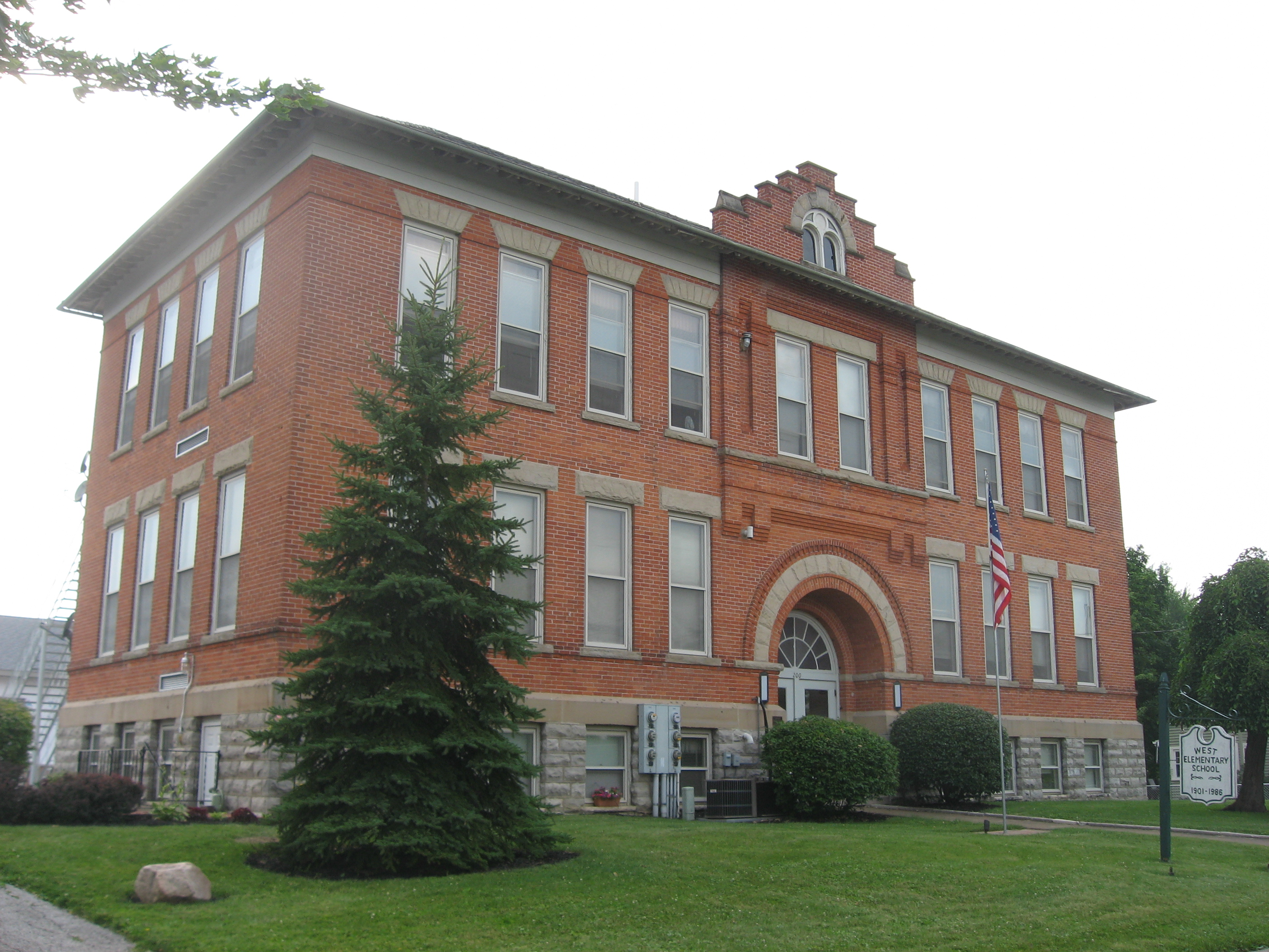 Front and southern side of the West End Elementary School, located at 200 West Street in Carey, Ohio, United States. Built in 1905, it is listed on the National Register of Historic Places.